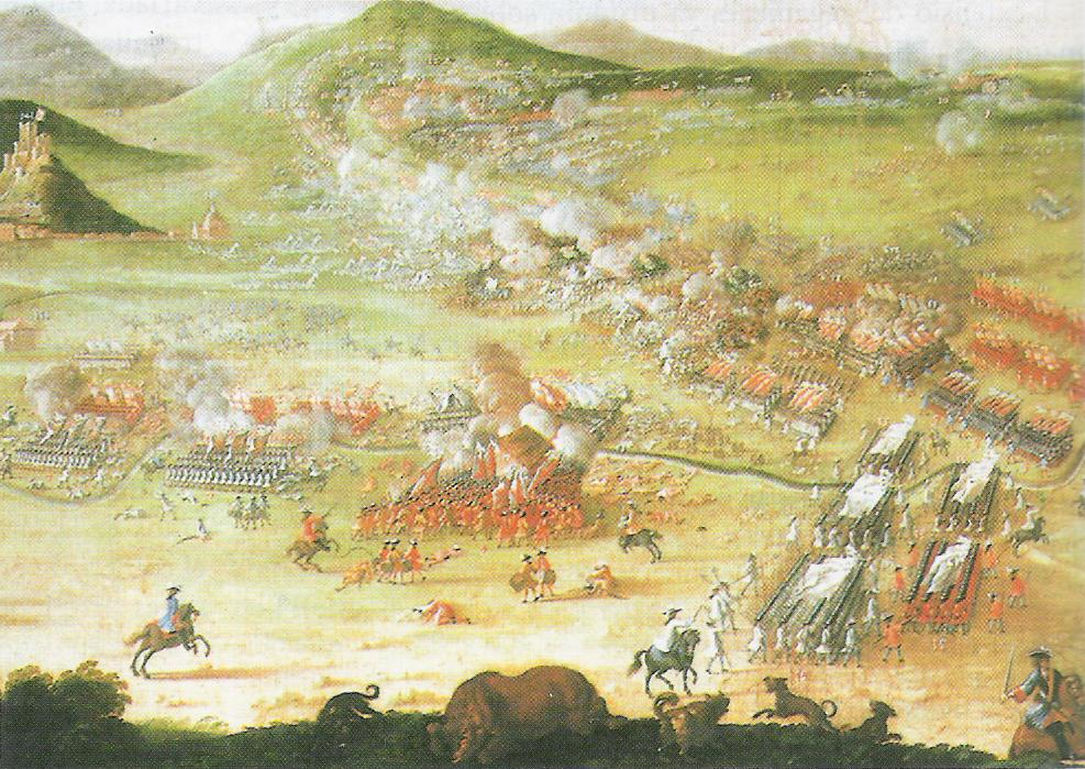 Battle of Almansa (re-uploaded with correct license).